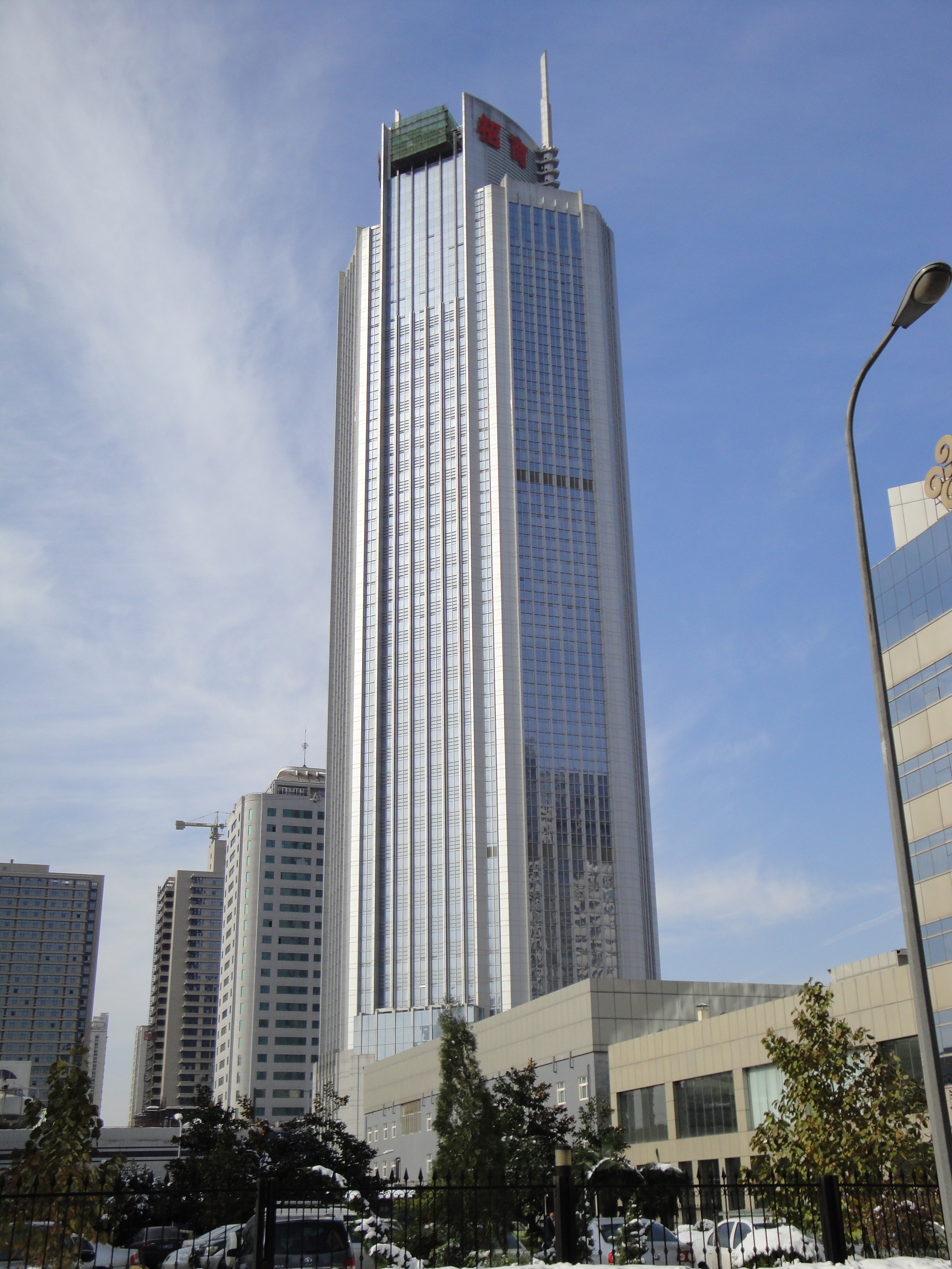 Westen Port International,xi'an,CHINA